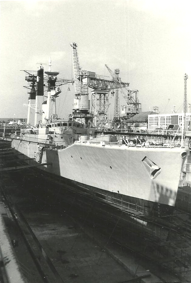 Rothesay" Class Type 12M Anti Submarine Frigate "HMS Londonderry"under major conversion to a weapons trials ship with the 4.5" gun turret removed, a helicopter pad fitted, and no less than three radar/electronic masts erected (instead of the one as built). At the Portsmouth Navy Days, August 1980